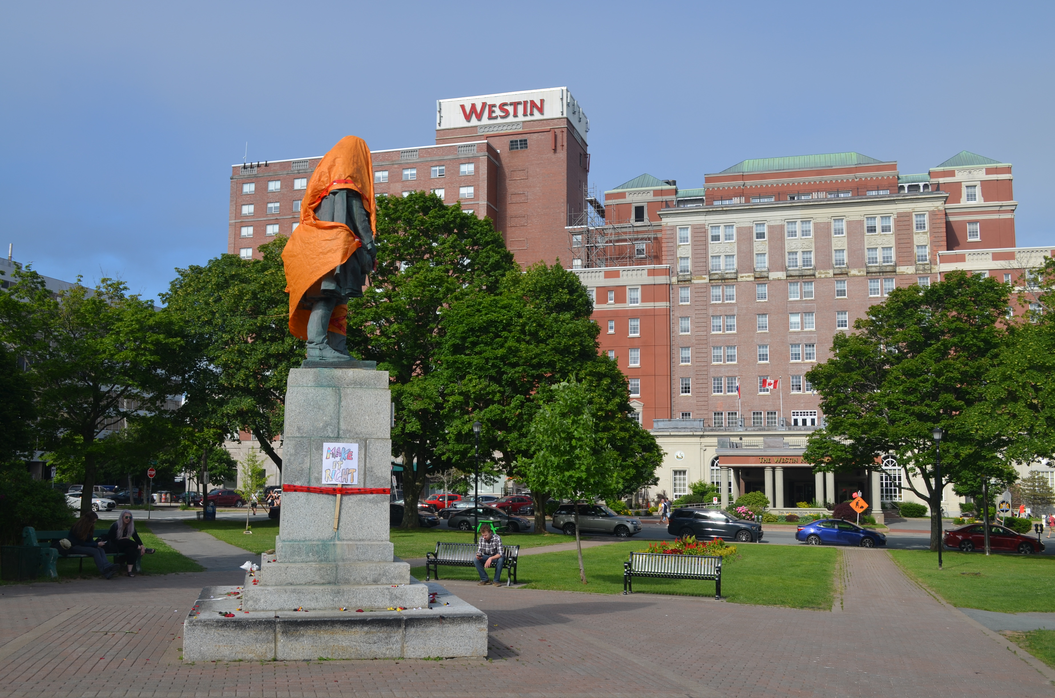 The Edward Cornwallis statue, in downtown Halifax, Nova Scotia, on July 15, 2017.